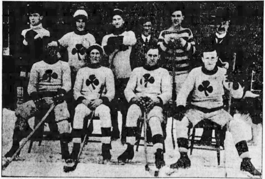 Arnprior Shamrocks ice hockey team in 1910, champions of the Upper Ottawa Valley Hockey League.